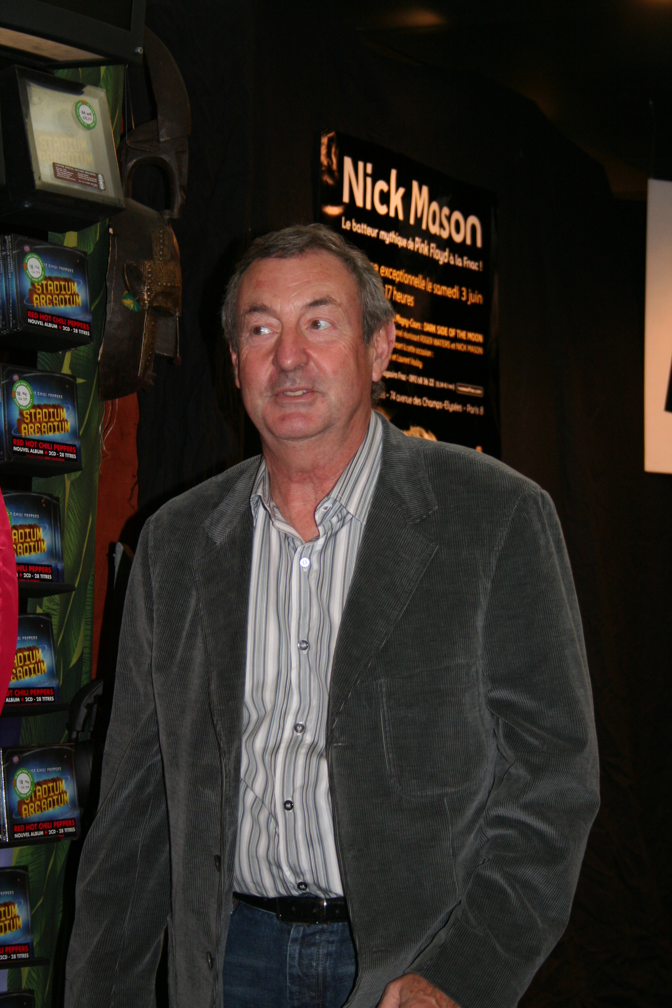 Autograph session with Nick Mason at Fnac des Champs-Élysées (Paris, France).